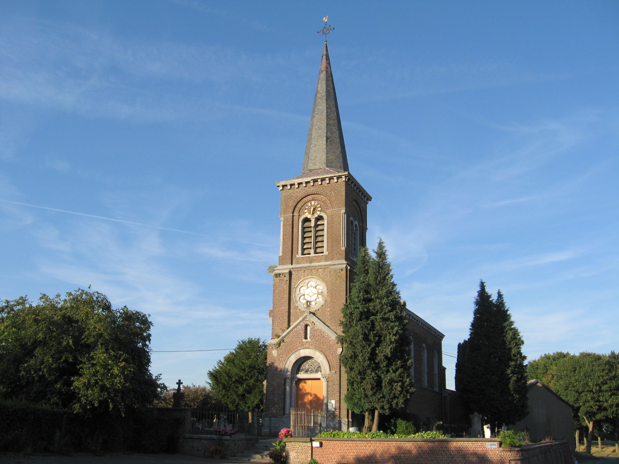 Church of Saint Peter in Tourinne, Braives, Liège, Belgium